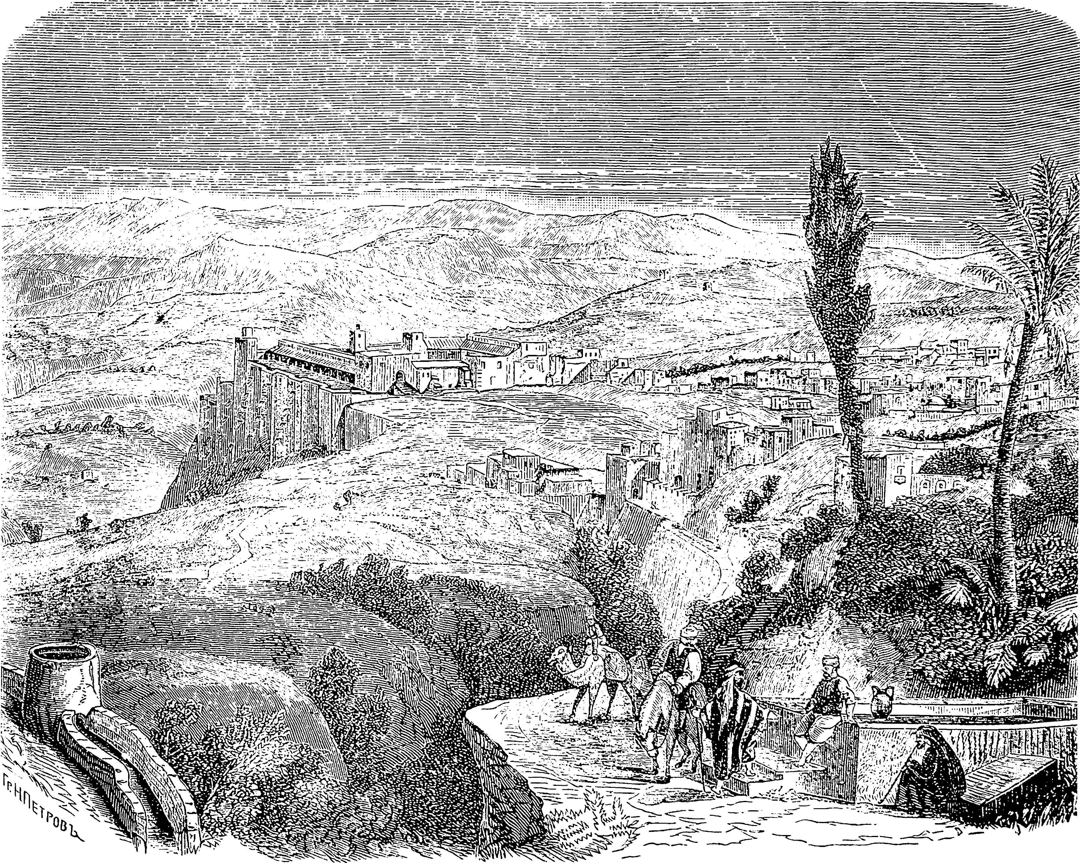 Bethlehem. Picture from popular bible encyclopedia of Archimandrite Nicephorus (1891).